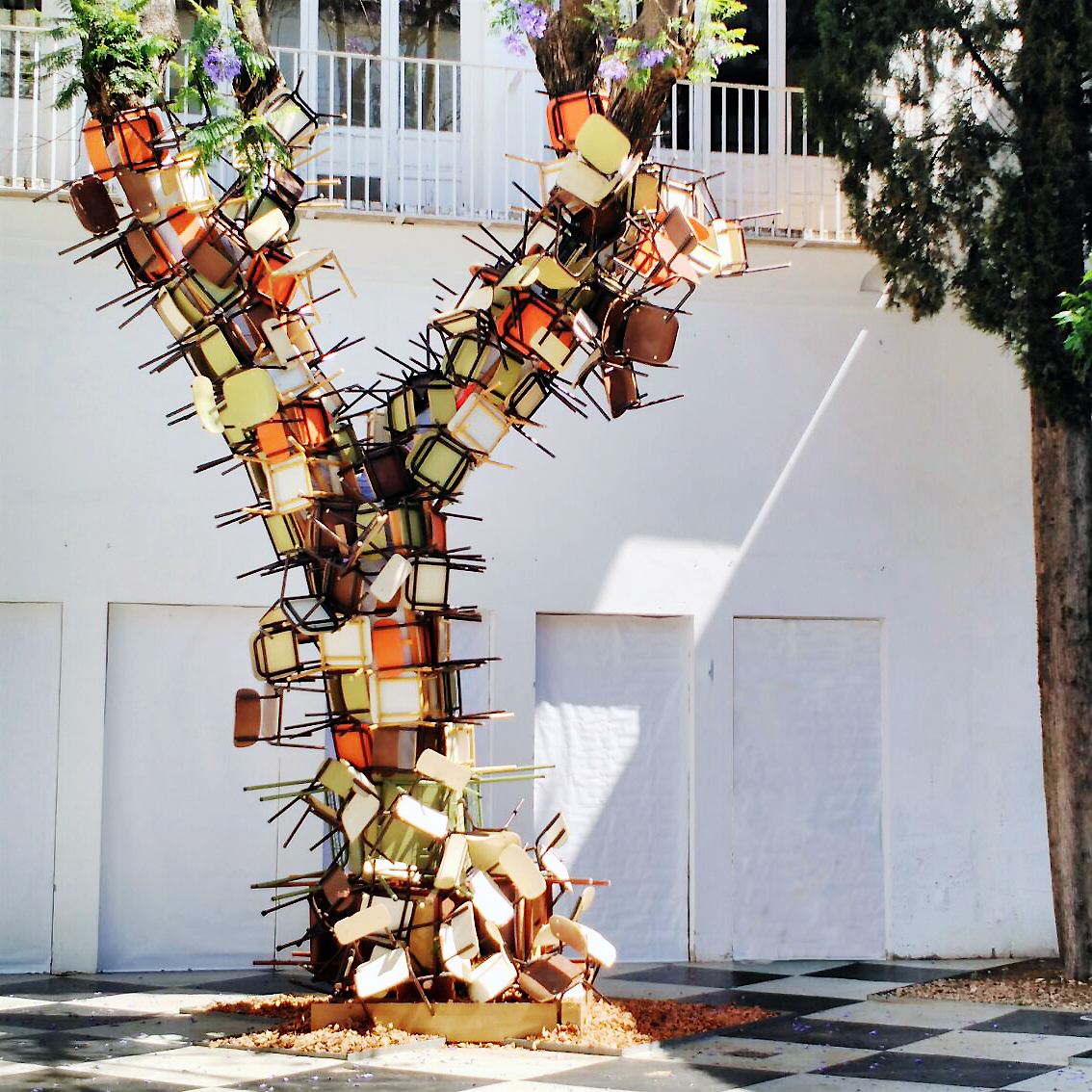 Caring, Educating, Protecting Installation made by López-Aparicio with chairs and tables schools dismantled in a process of decline of government support for education. Within the framework of a seminar for environmental education: protecting a tree, defending the responsible use of nature. And social education as the only possible solution. The artist was in the tree since the end of the installation until the end of the seminar.